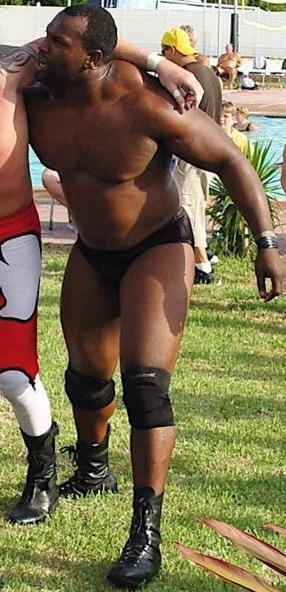 Rycklon Stephens at a FCW show in New Port Richey Florida